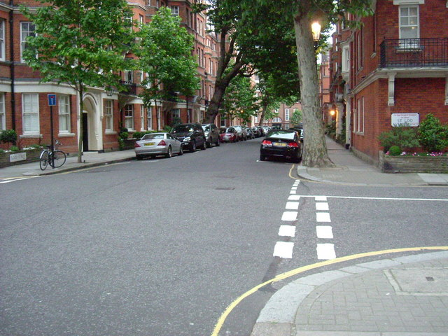 Flood Street, SW3 Victorian/Edwardian blocks of flats at the junction of St. Loo Avenue, SW3